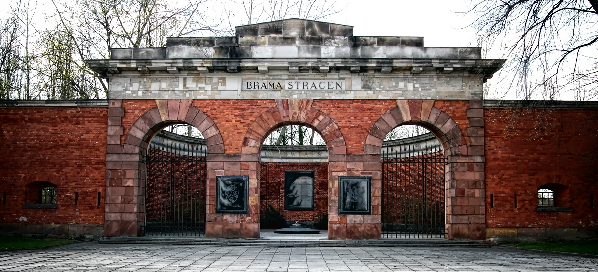 Warsaw Citadel